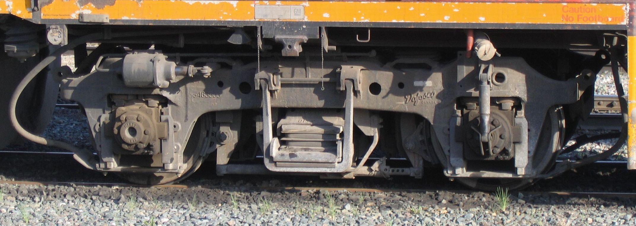 photo by Meggar